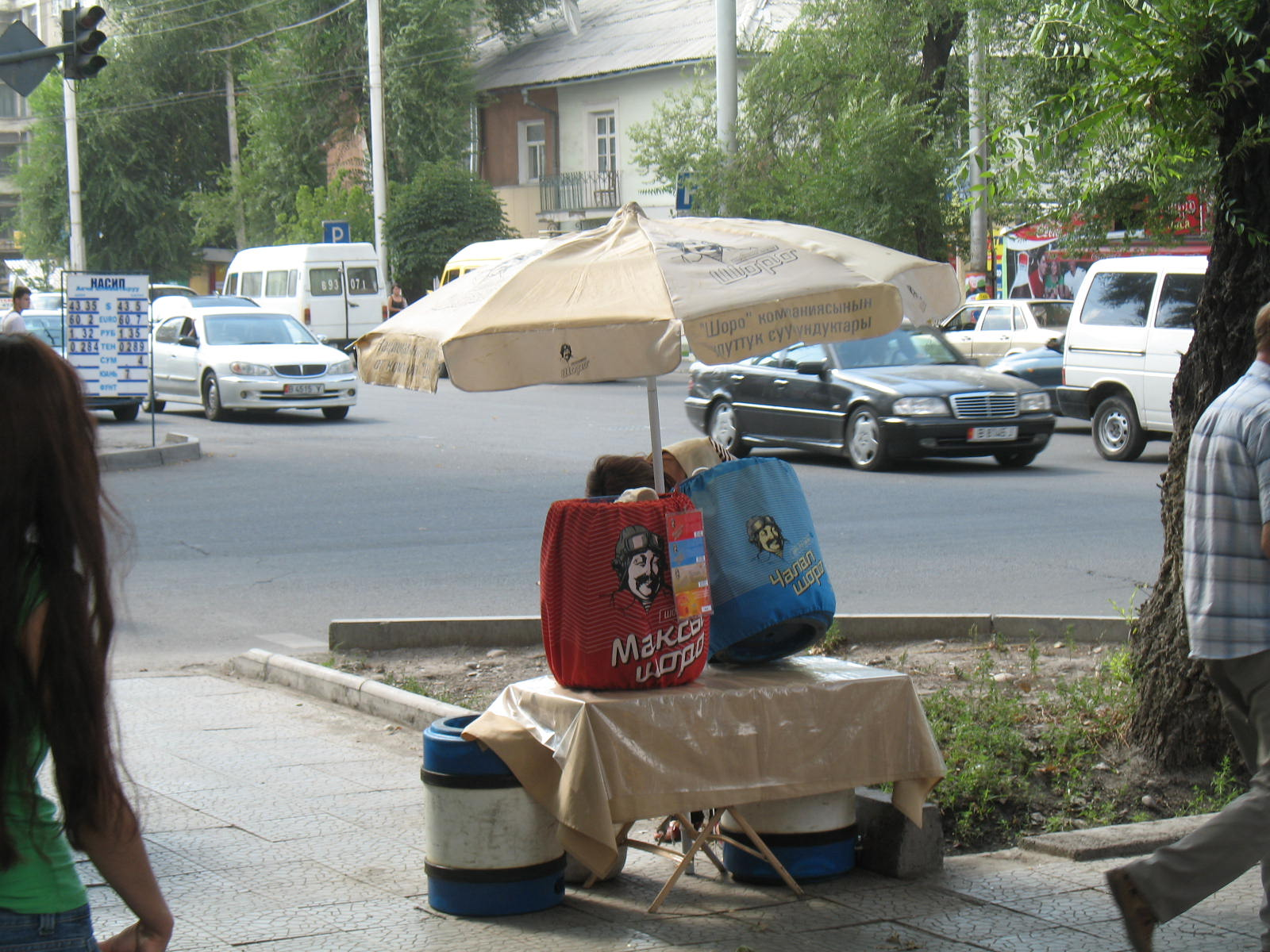 Shoro products being sold on the corner of Kievskaya and Togolok Moldo in Bishkek, Kyrgyzstan. Кыргызча: Шоро компаниясынын ичимдиктери Бишкек шаарынын Киев жана Тоголок Молдо көчөлөрүнүн кесилишинде сатылып жатат.